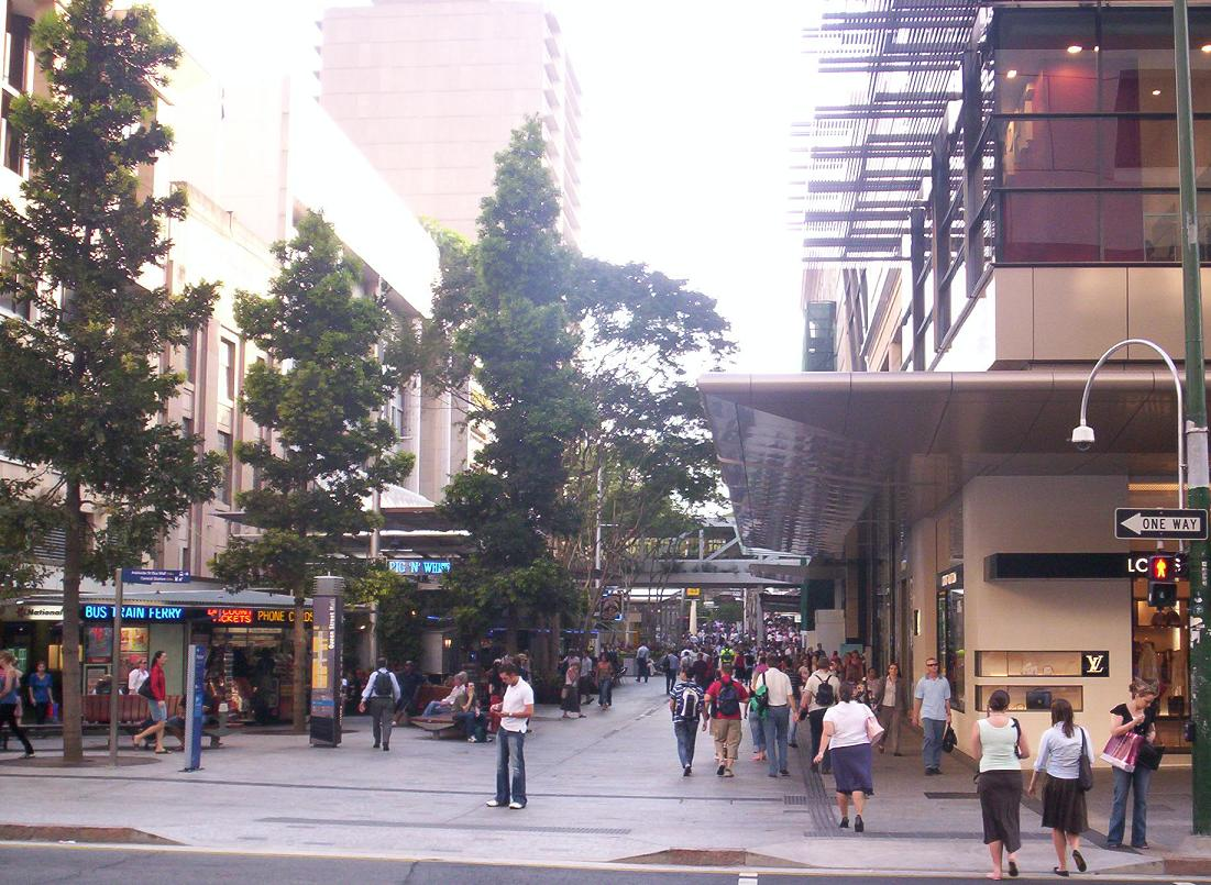 Another view of the Queens Street Mall ( this photograph was taken by Figaro )